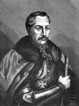 Atanazy Miączyńki